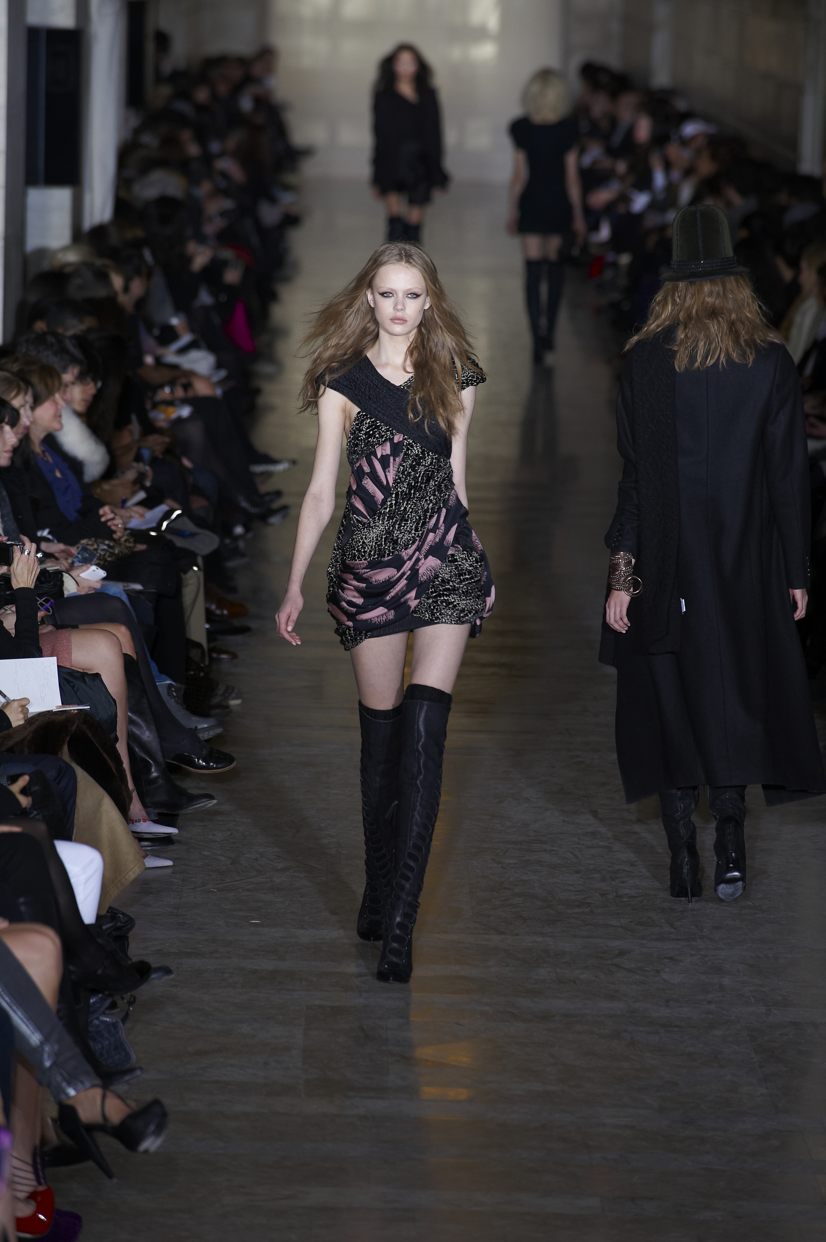 A model walks the runway at the Jill Stuart Fall/Winter 2010 show at New York Fashion Week, February 2010.